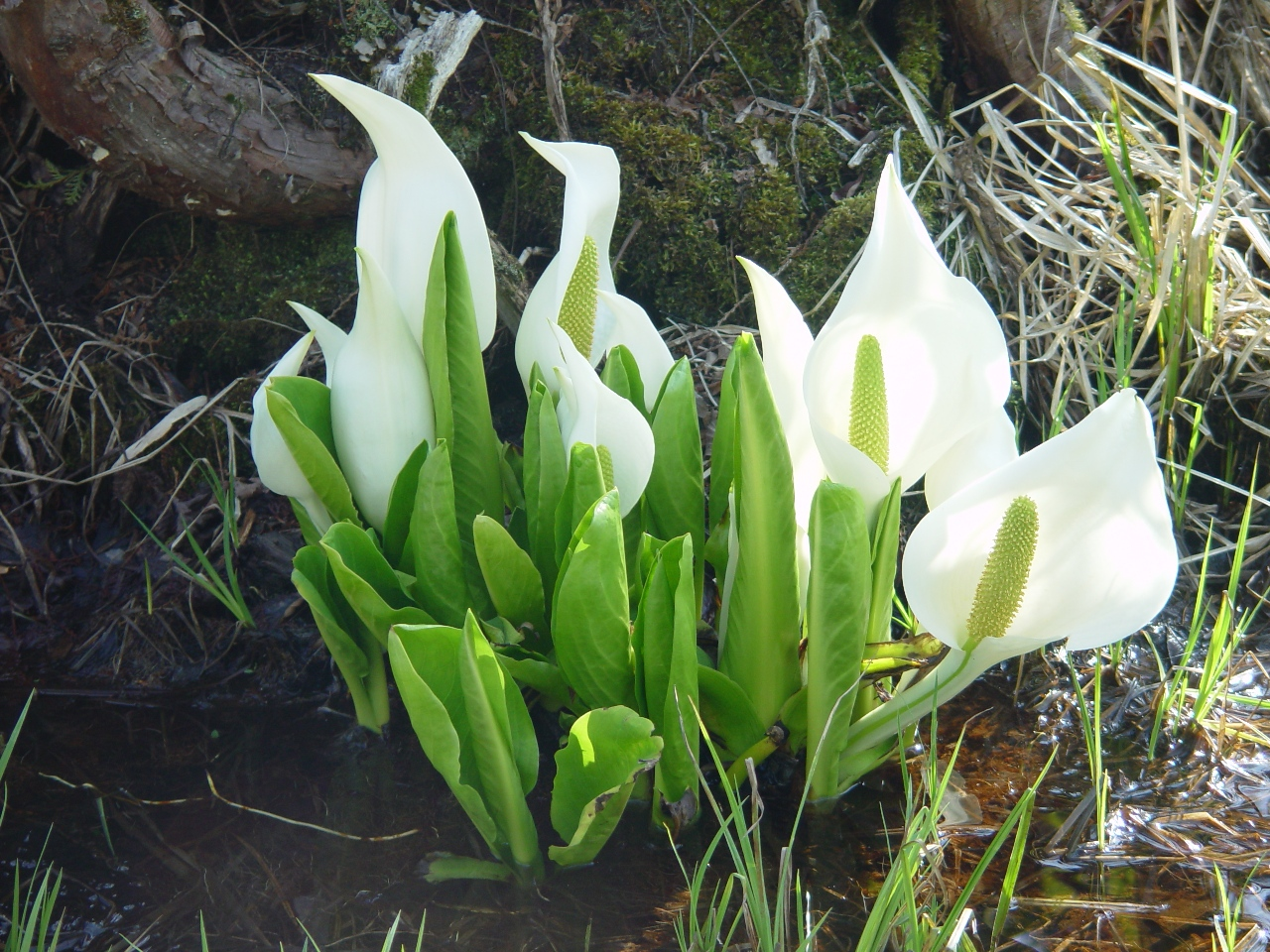 Lysichiton camtschatcensis in Sakaitouge, Nagano prefecture, Japan.